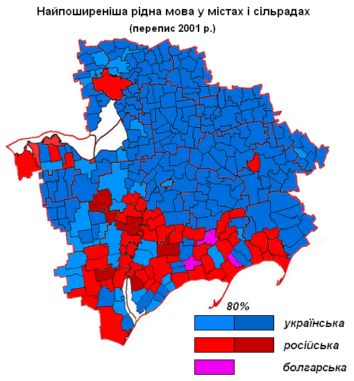 Native languages of Zaporizhia oblast according to 2001 census